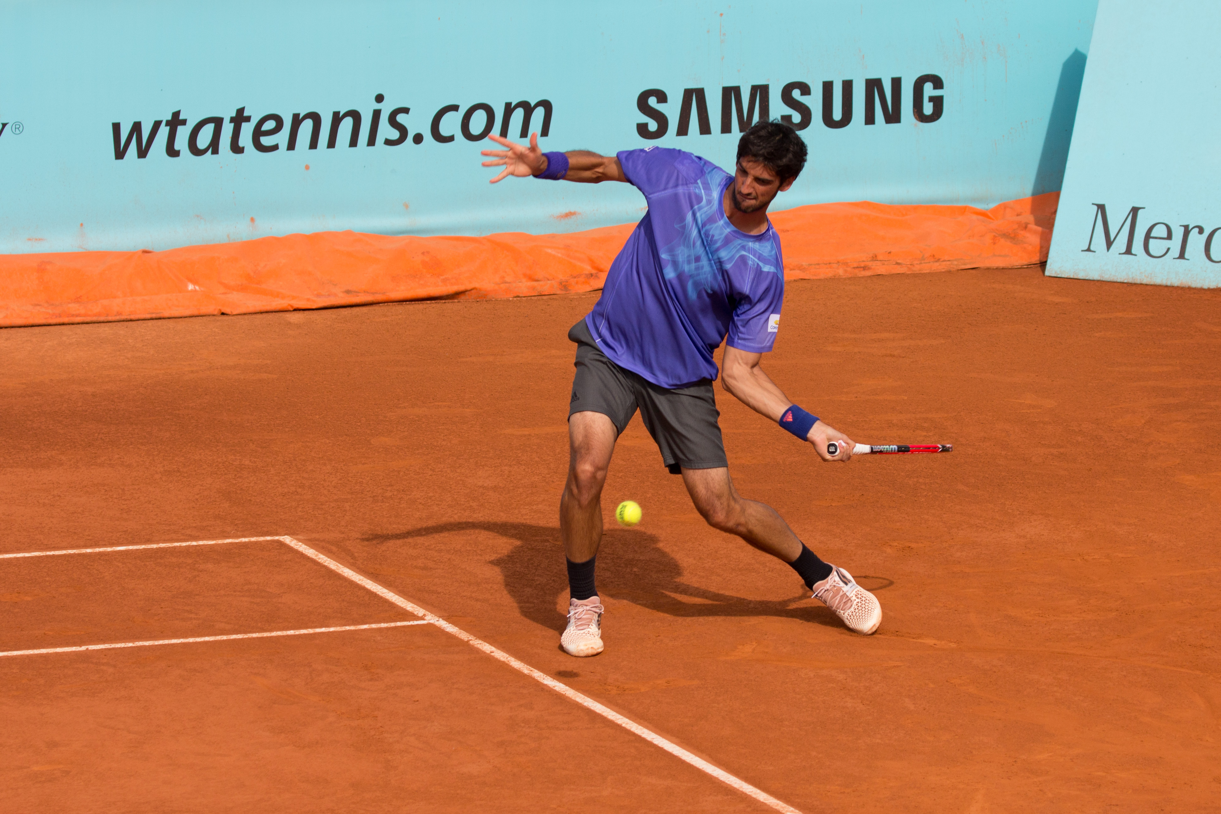 Thomaz Bellucci at the Madrid Open 2015, Madrid, Spain.